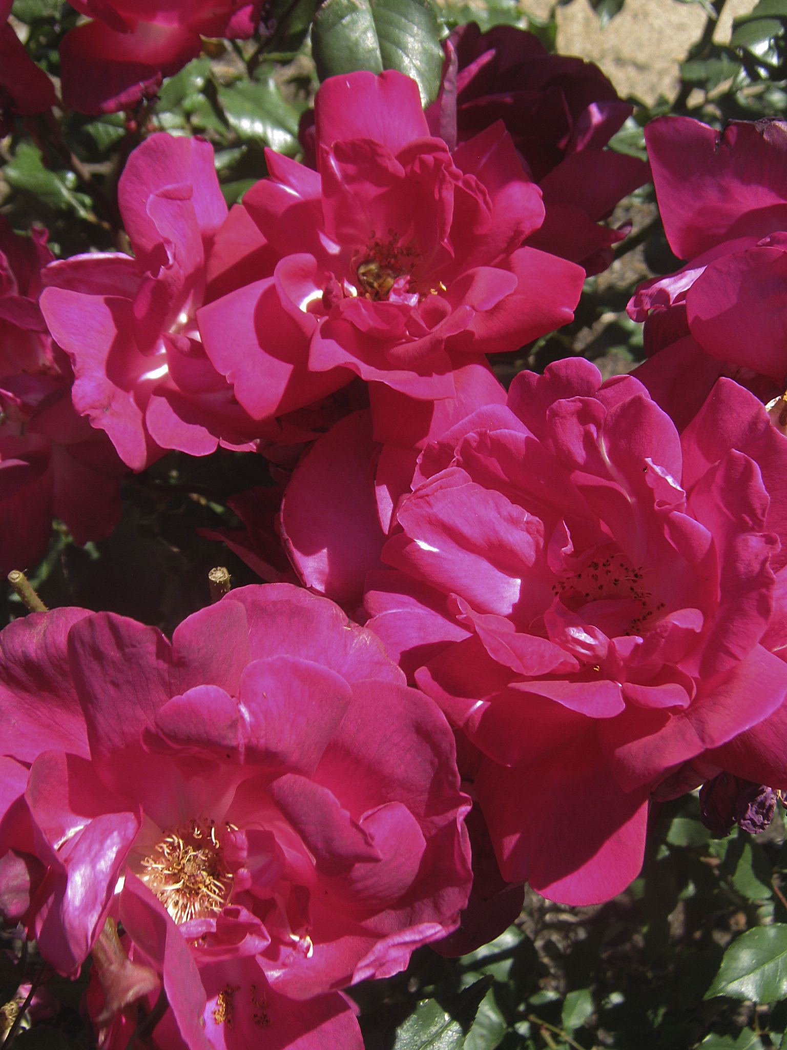 "Camnethan Cherry Red" Tea rose, found at Smeaton Victoria; Photographed in Nieuwesteeg Heritage Rose Garden, Maddingley Park, Bacchus Marsh, Victoria